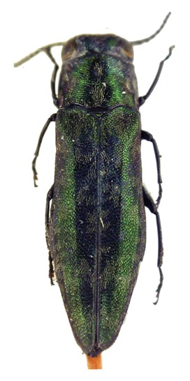 Agrilus kurandae Obenberger 1923, lectotype.